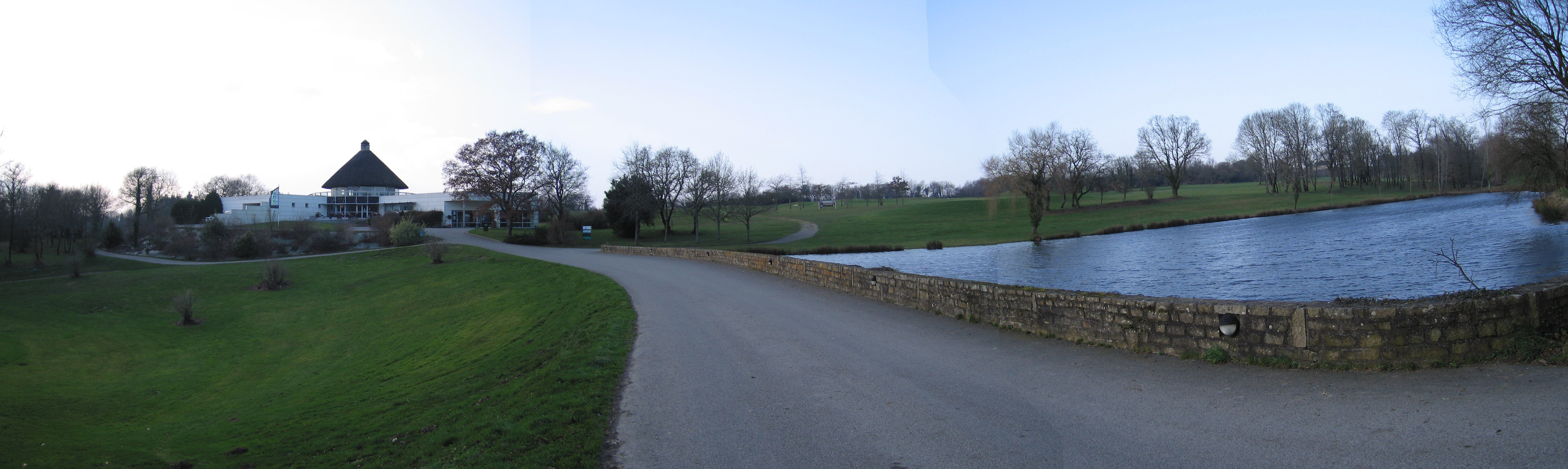 Panorama of the Golf in Savenay, France